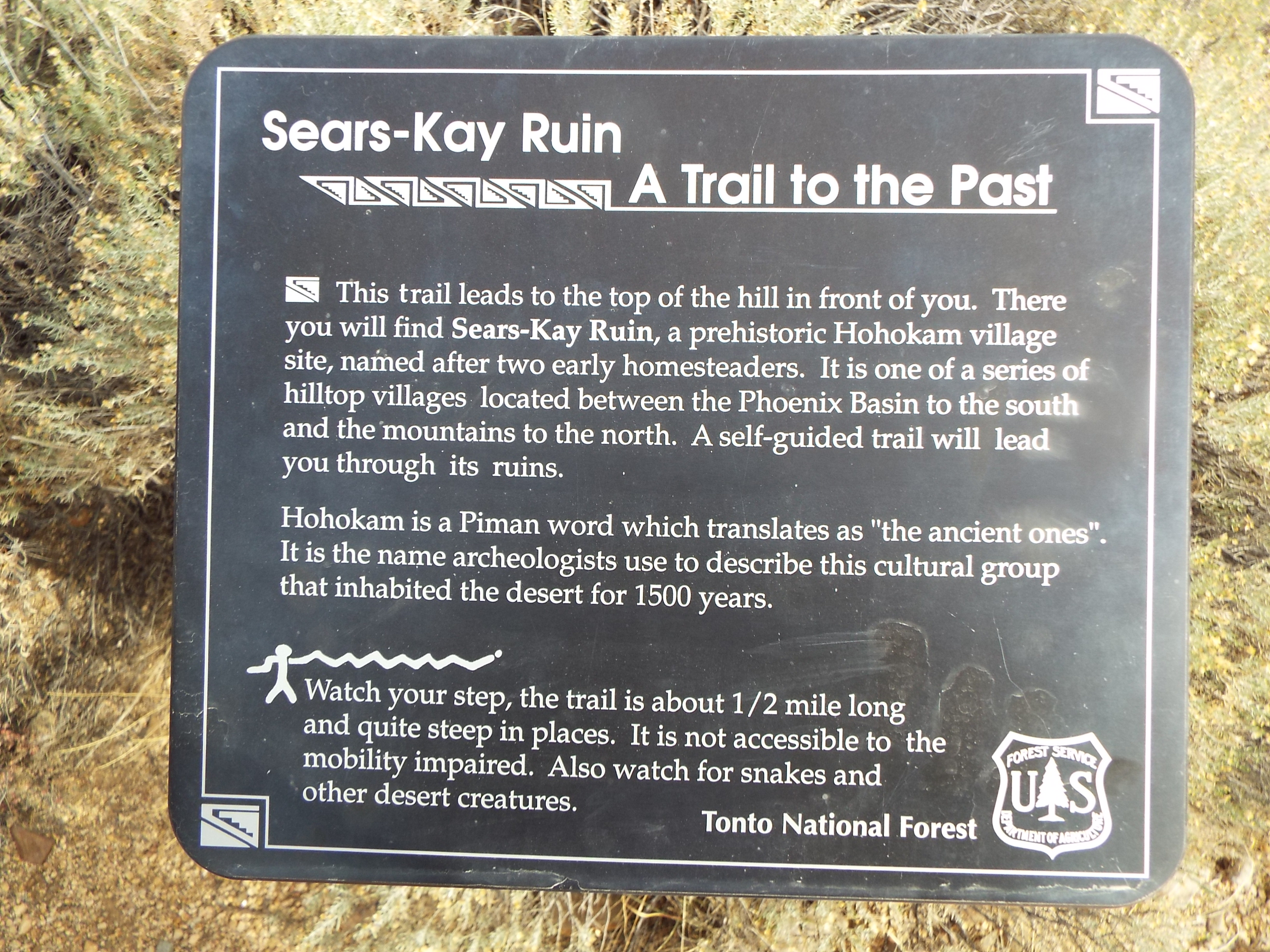 Sears-Kay Ruin trail marker. Located atop a desert foothill in the Tonto National Forest on the outskirts of the town of Carefree, Az. The site was listed in the National Register of Historic Places in November 24, 1995, reference #95001310.